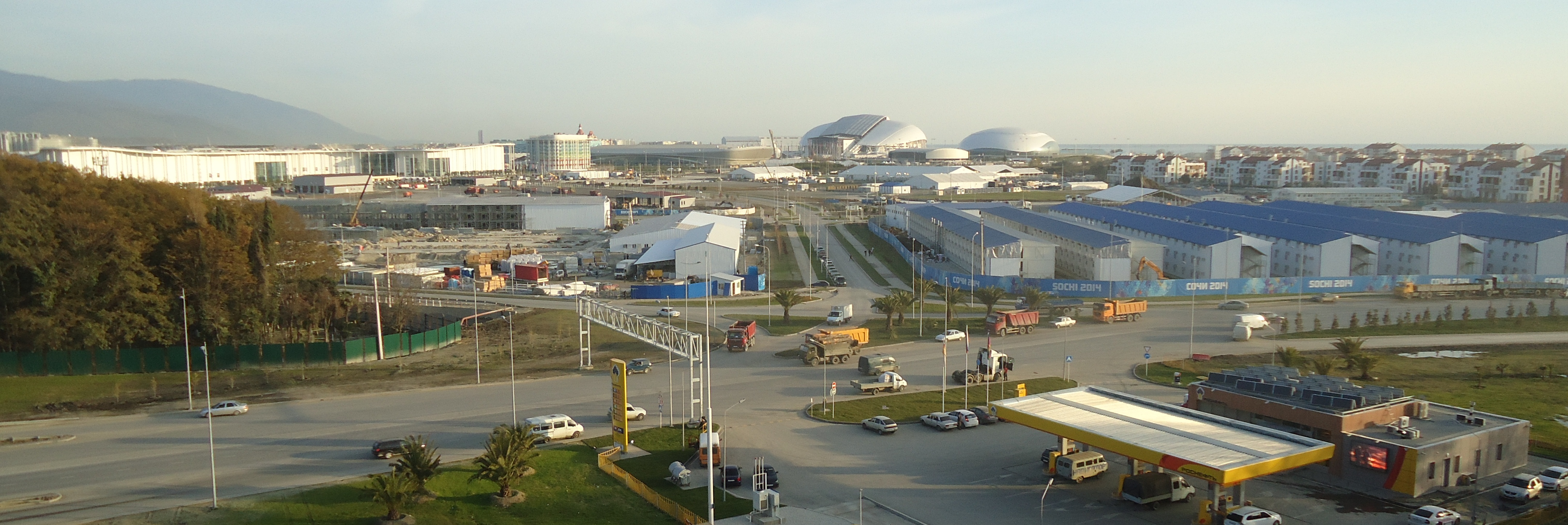 Panorama of construction of Olympic 2014 facilities in the Imereti lowland in the Adler district of the city of Sochi. November 2013.